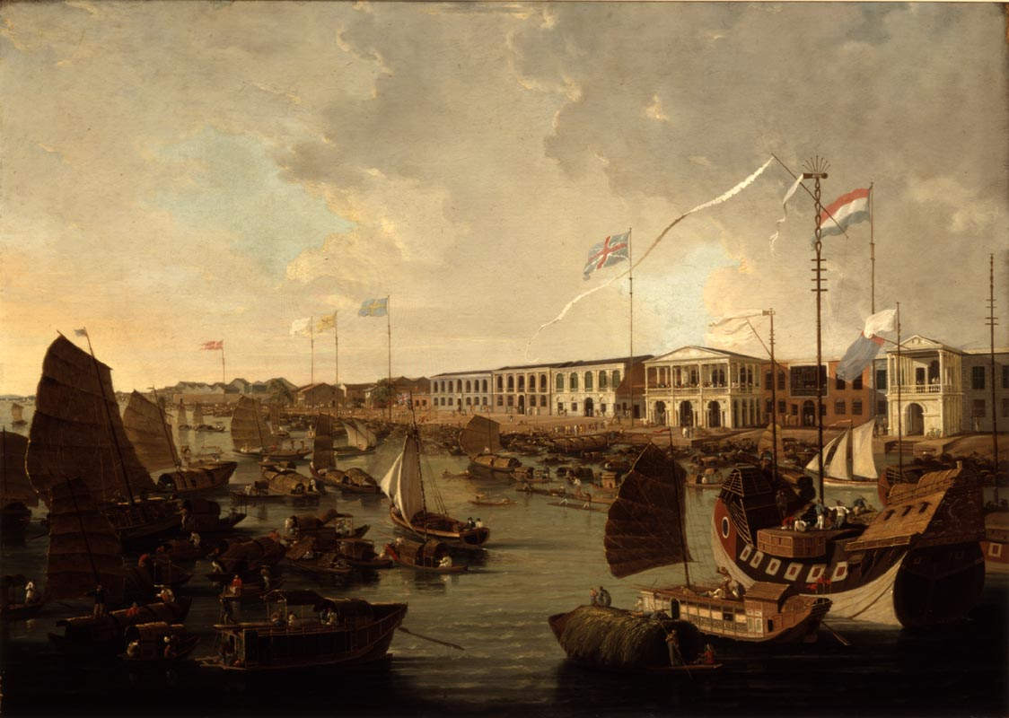 View of the Canton factories — by William Daniell, 1805-1806. Painting of Canton City (Guangzhou) — with the Pearl River and the some of the Thirteen Factories of the Europeans.